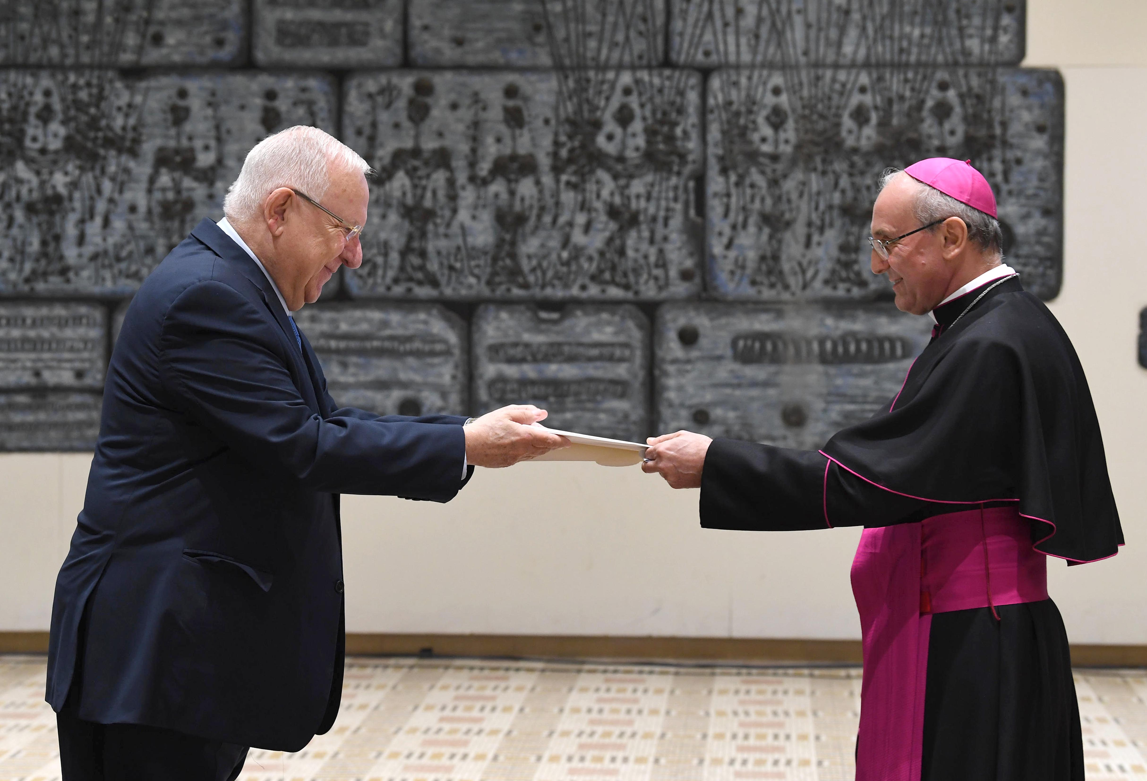 President Reuven Rivlin receives the credentials of the new ambassadors from Sweden, Portugal, Uruguay and the Vatican - upon their entry as ambassadors of their countries in Israel. Wednesday, November 29, 2017. Photo Credit: Mark Neyman / GPO.